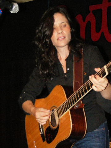 Shannon McNally at Antone's in Austin, TX. Photo by Ron Baker.